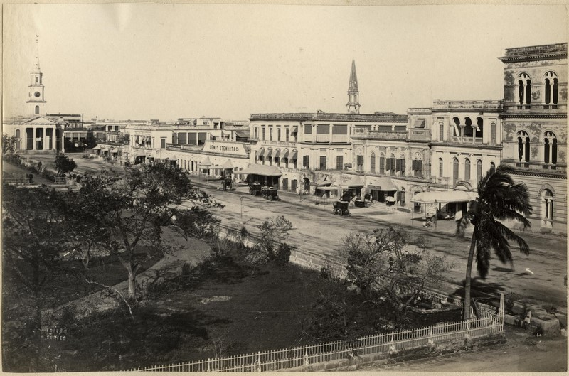 Dalhousie Square, in an albumen photo from c.1870's; part of the Frith series